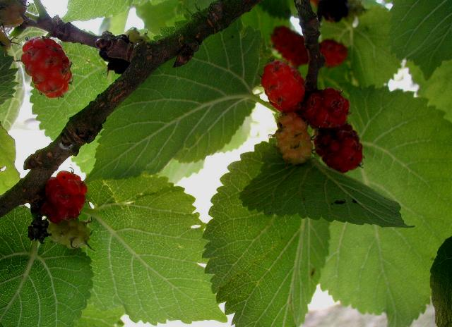 Morus nigra: Fruits and foliage.